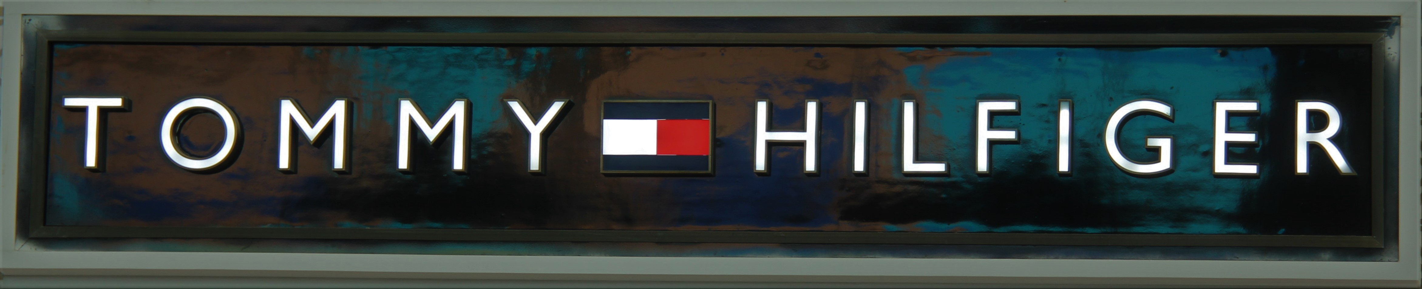 Tommy Hilfiger signage and logo at its store at Delhi airport.